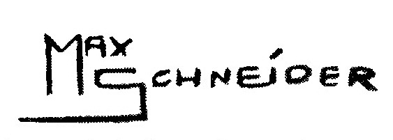 Signature of the painter Max Schneider in Vienna.